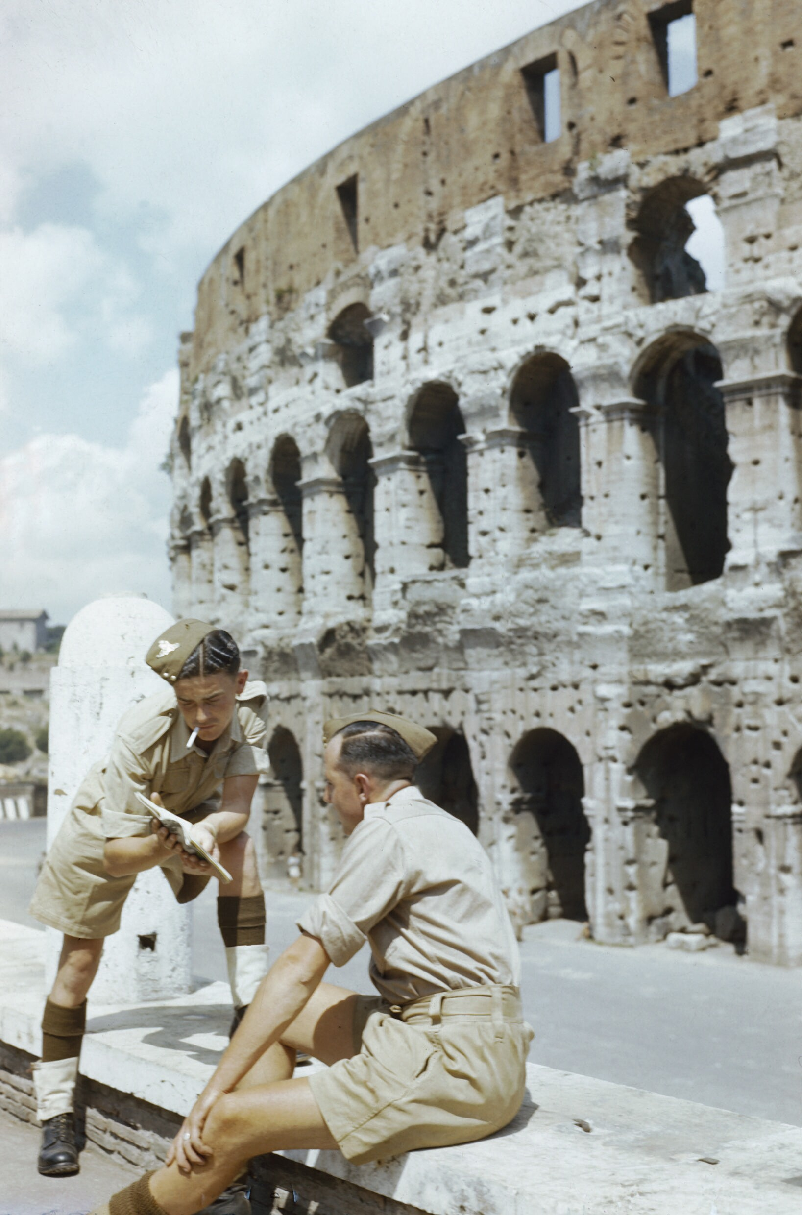 The British Army on Leave in Italy, June 1944 'A Day in Rome with Gunner Smith': Gunner Smith outside the Colosseum, pauses with a friend to consult the guidebook.